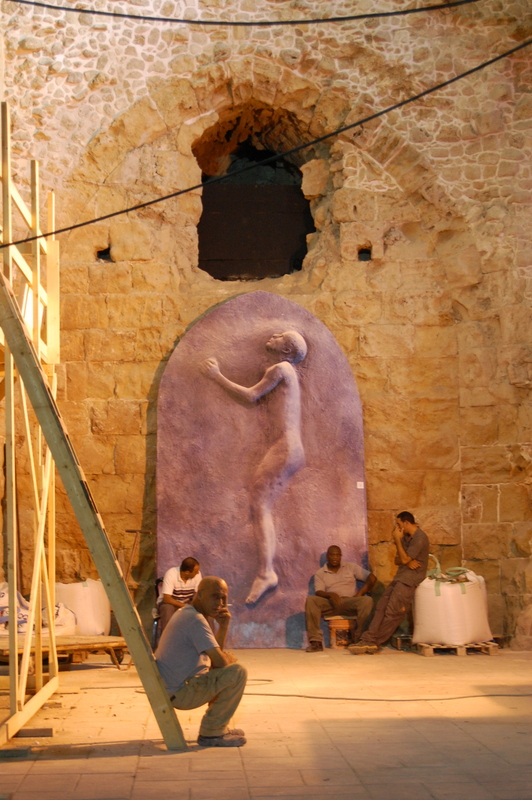 shiputzim